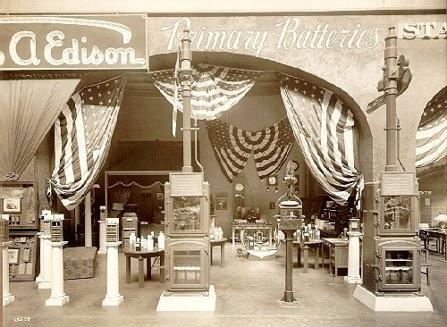 Thomas A. Edison Industries Exhibit, Detail of Section Devoted to Primary Battery; June 16, 1915; {18.400/30} (jpg).